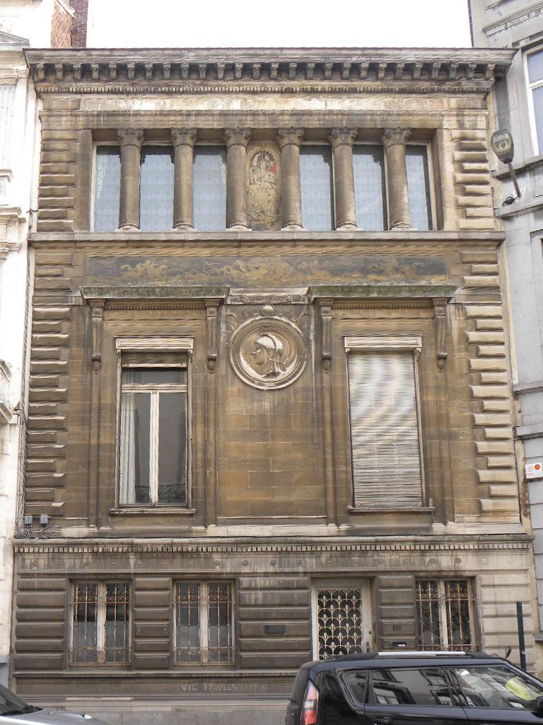 Eugène Goblet house in St Gilles section of Brussels